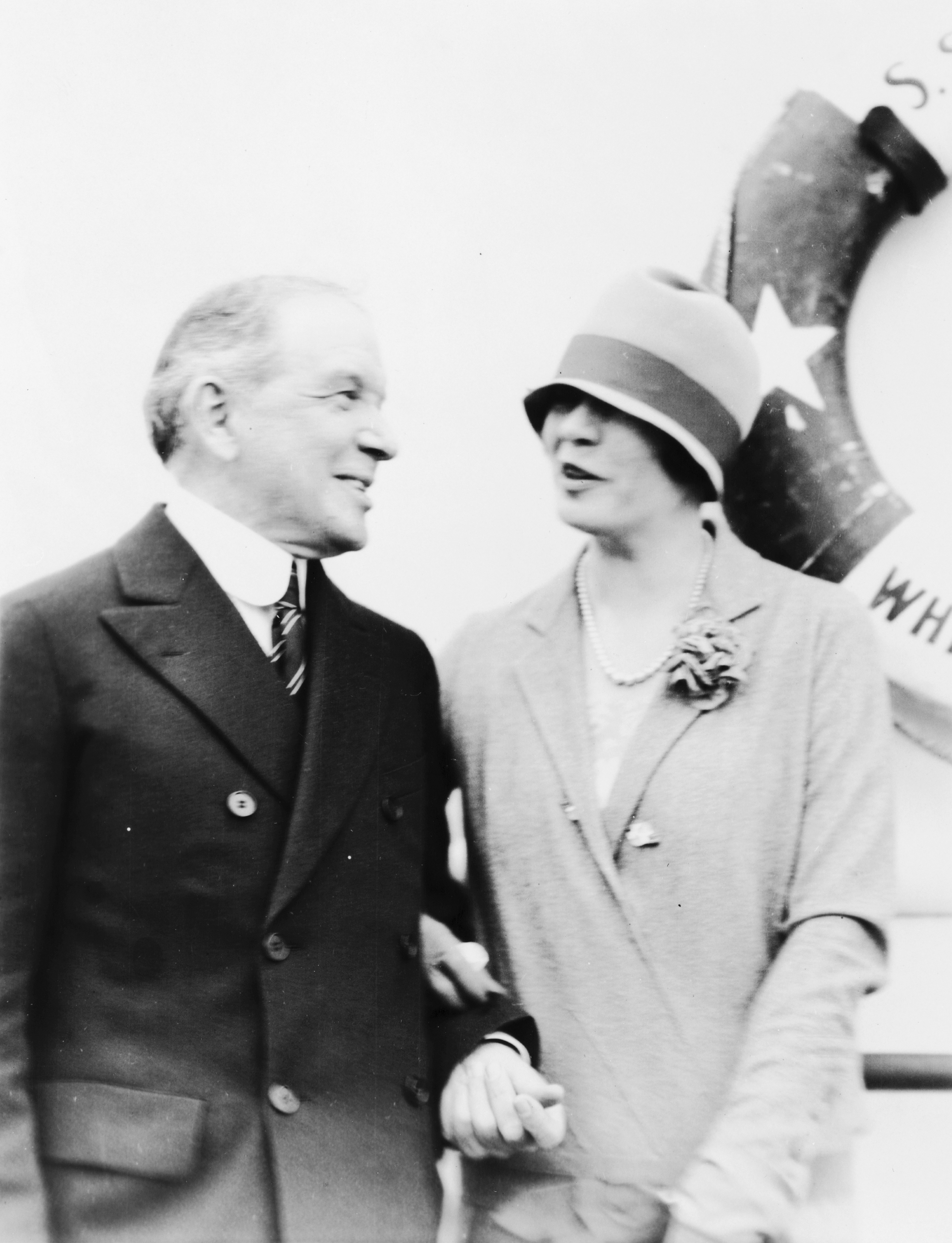 W.C. Durant and wife. Half-length portrait standing on S.S. Majestic. Between 1926 and 1929.